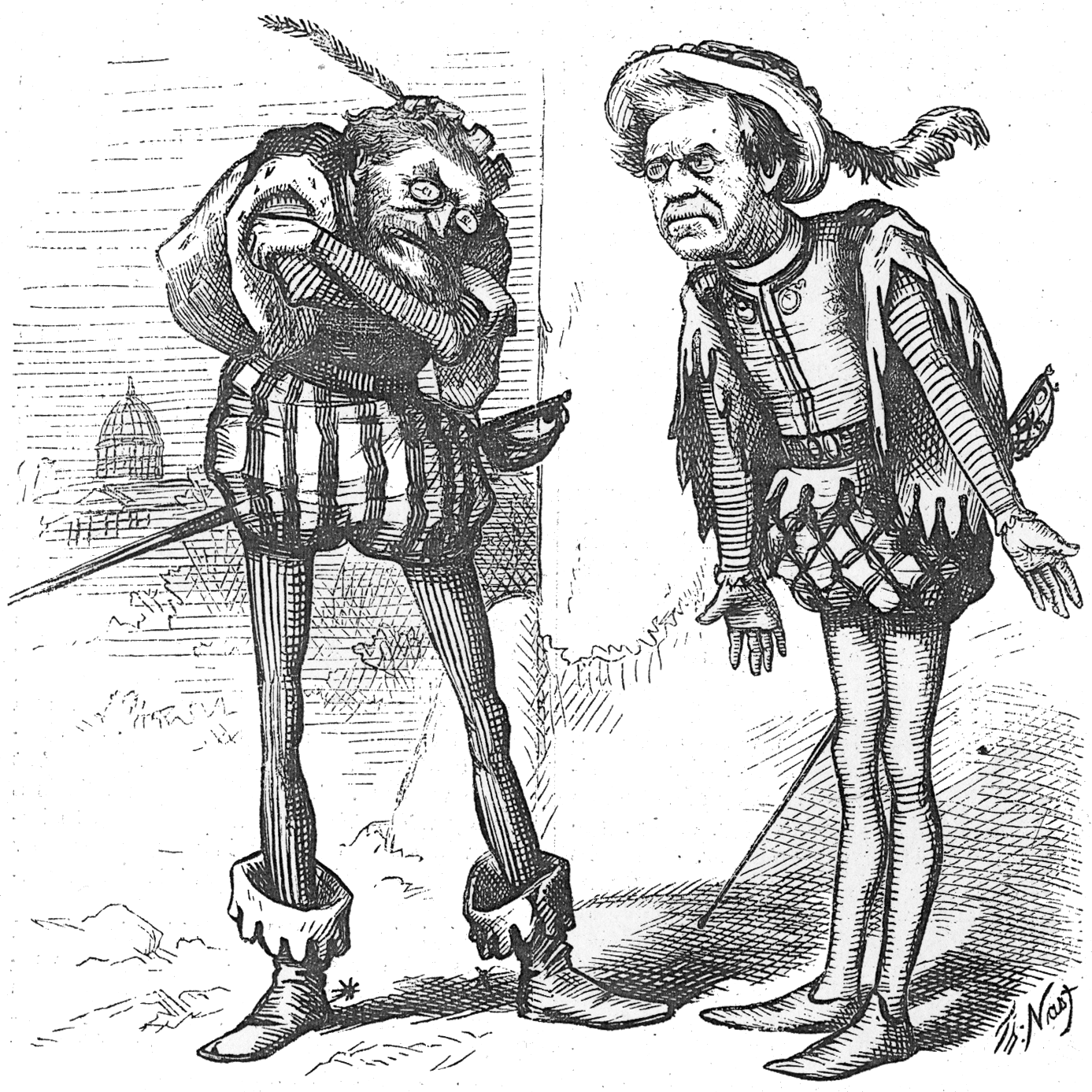 U.S. Senators Schurz and Trumbull (as Gloucester and Buckingham) play Act III, Scene VII from Shakespeare's play Richard III.